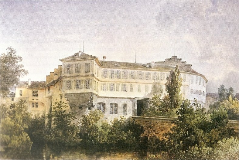 Castle and pleasure garden Kirchkeim/Teck